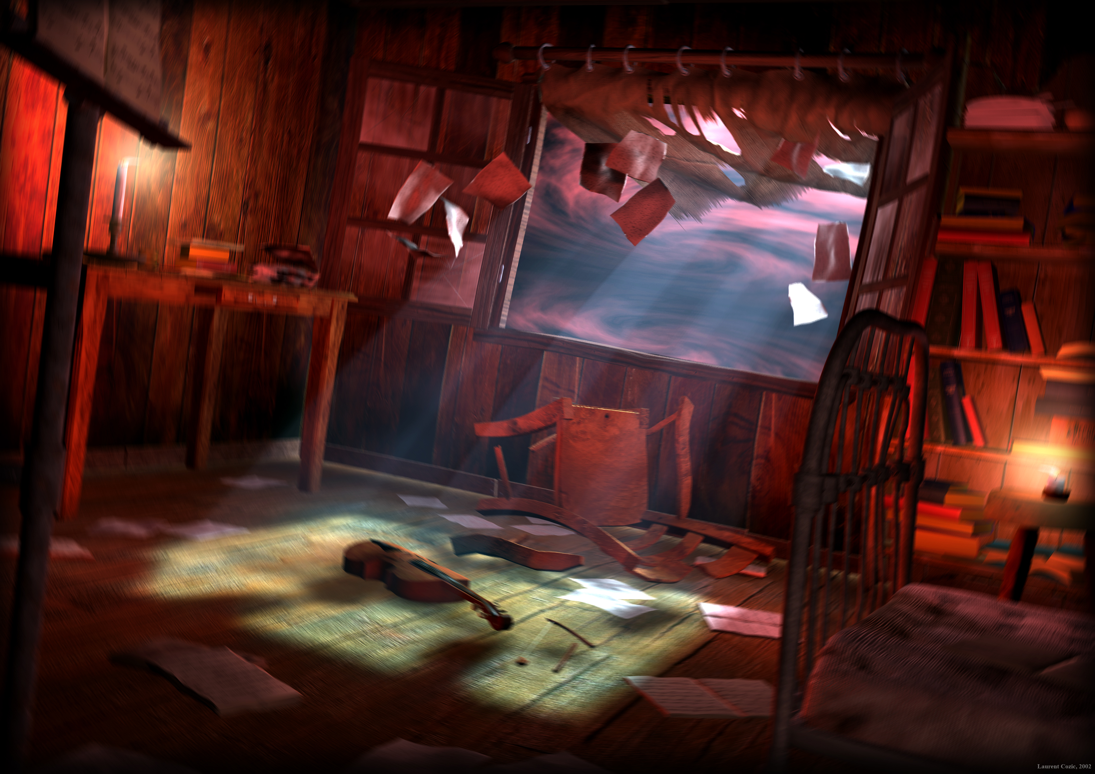 Artistic depiction of Zann's room in the short story "The Music of Erich Zann" by Lovecraft.